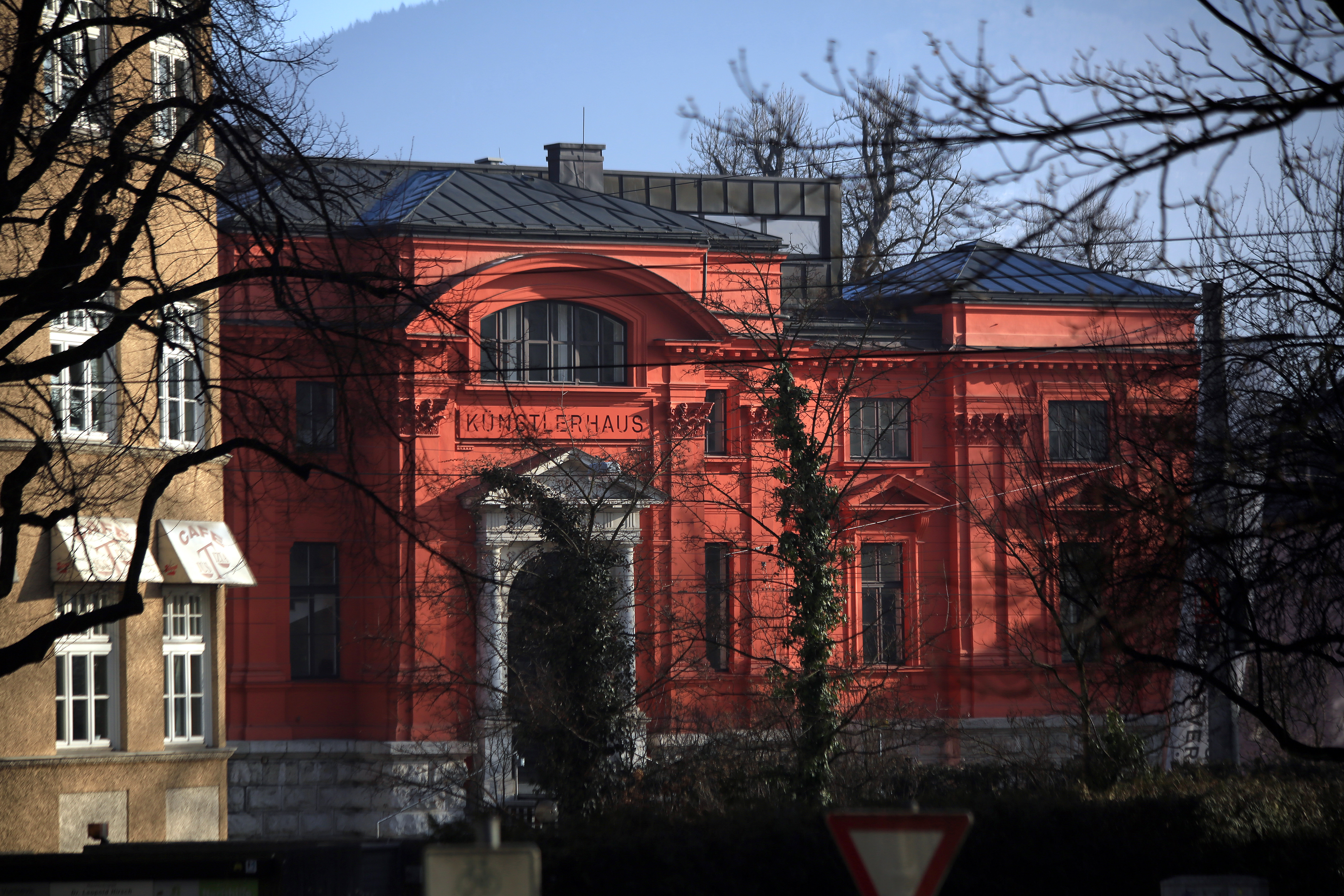 Künstlerhaus Salzburg in Salzburg, Austria.